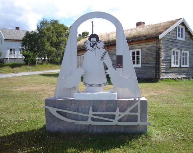 Seppala monument in Skibotn, Norway, his birthplace.